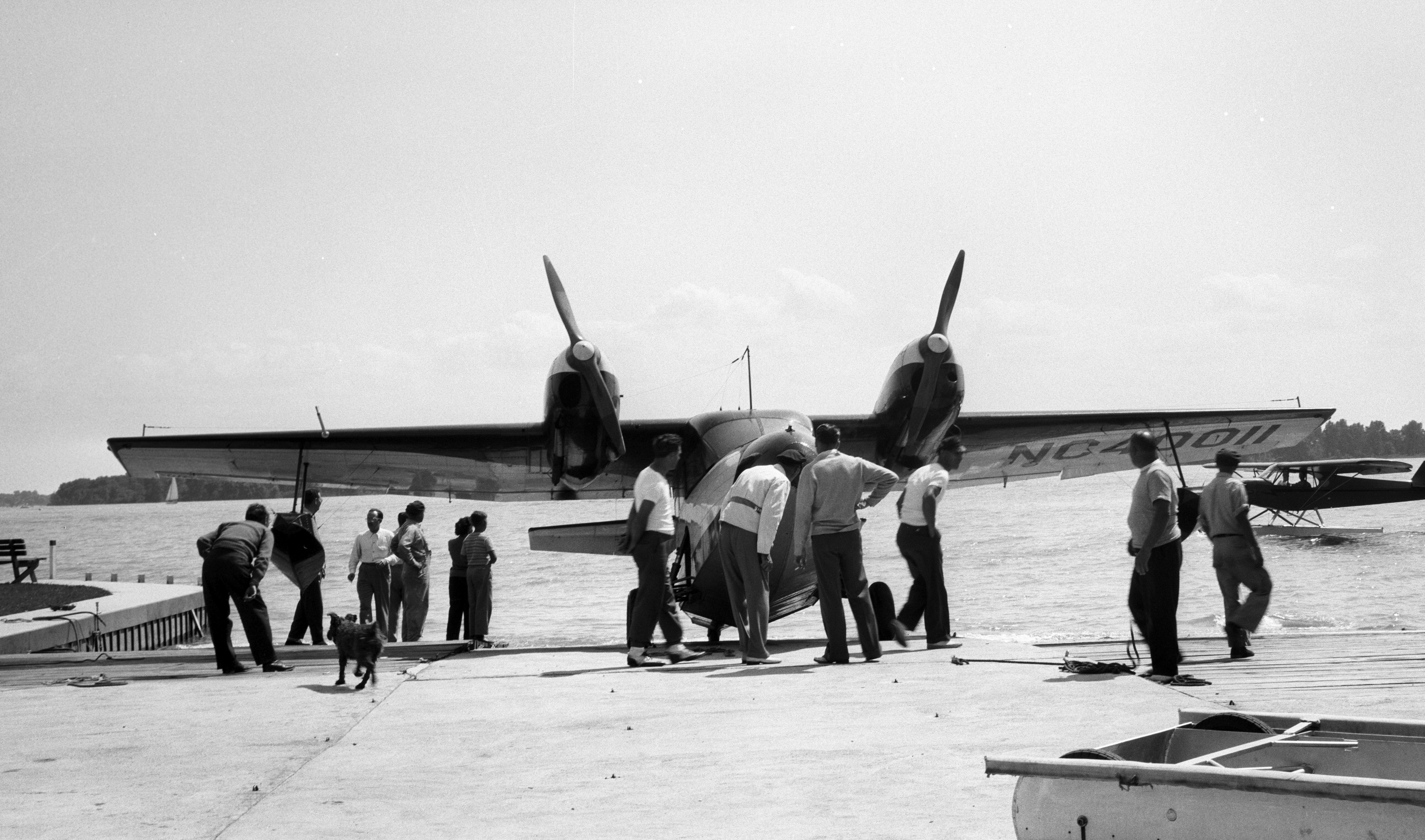 Grumman G-44 Widgeon NC40011 at Garland's Seaplane Base, owned by Harry G. Garland, on the Detroit River in 1947.